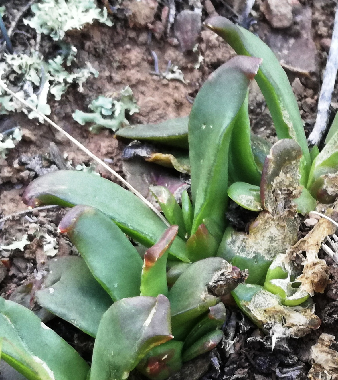 Detail of hooked leaf tips. Glottiphyllum depressum - Bonnievale